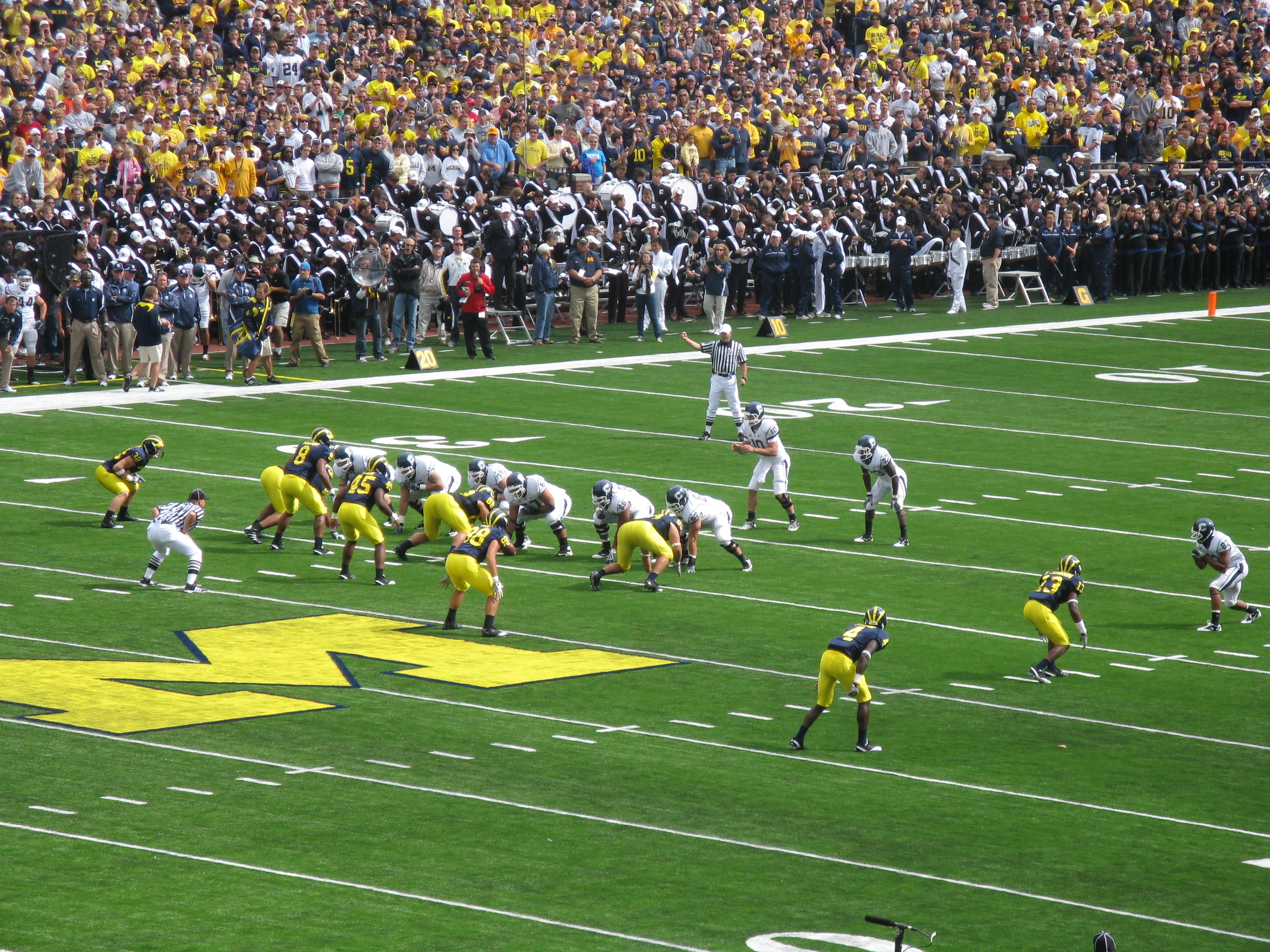 w:2010 Michigan Wolverines football team defense vs. w:2010 Connecticut Huskies football team offense. Identifyable players include #8 Jonas Mouton, #32 Jordan Kovacs, and #45 Obi Ezeh